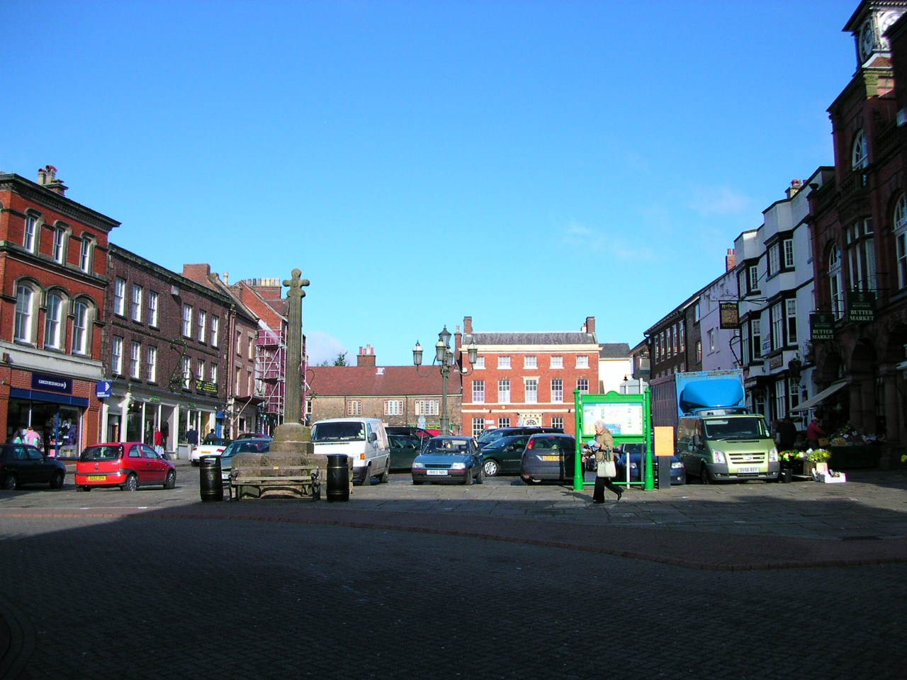 Leek, Staffordshire, England.